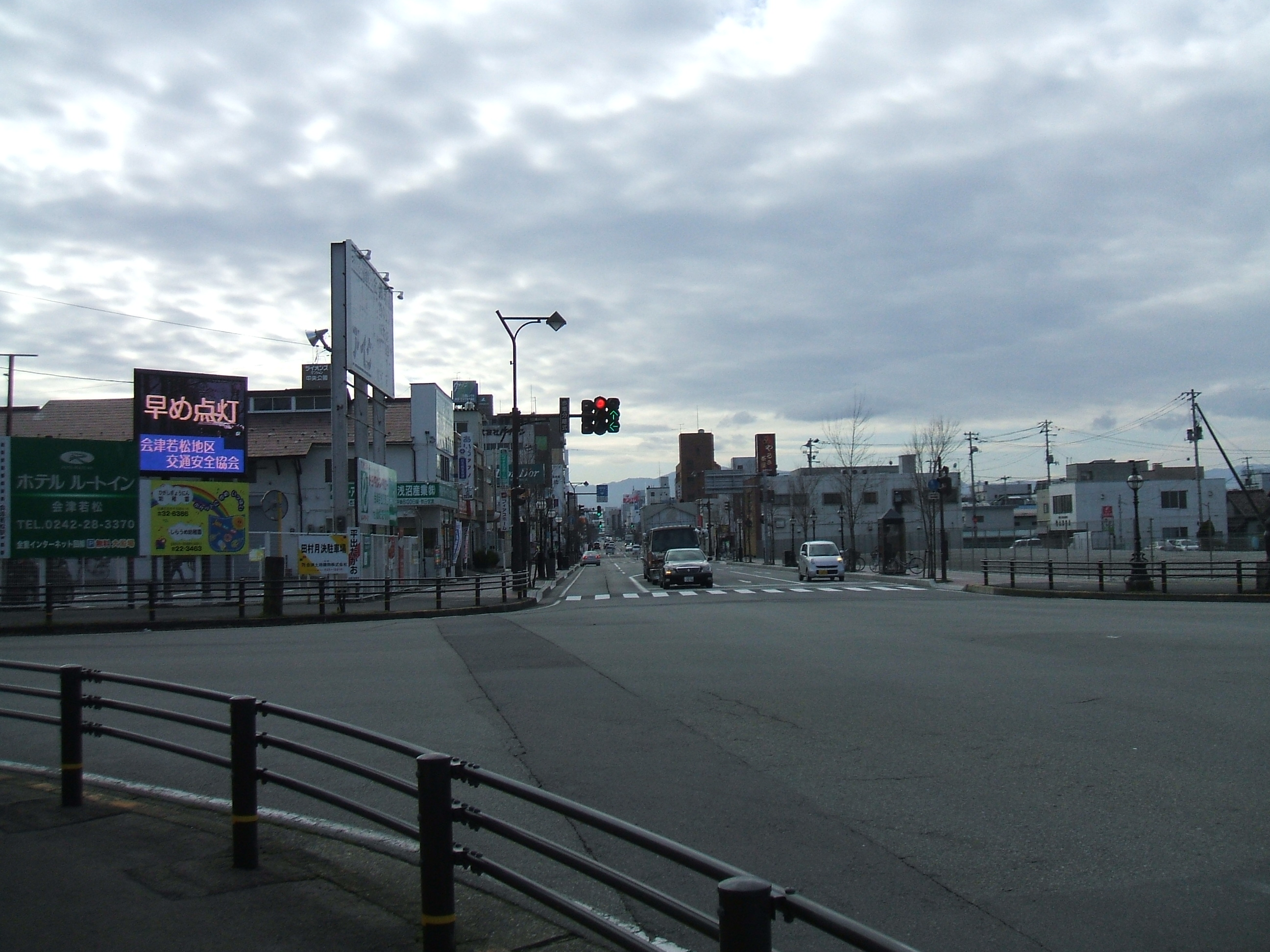 A landscape of "Tyuo-Dori" Street of Aizuwakamatsu, Fukushima. This is taken at a north crossing of street.